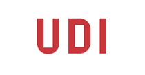 Logo of the Norwegian Directorate of Immigration